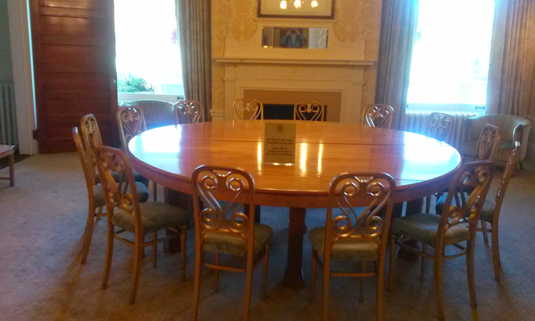 This small room (approximately 20x20) is where the historic agreements were signed establishing the International Monetary Fund and World Bank in 1944.